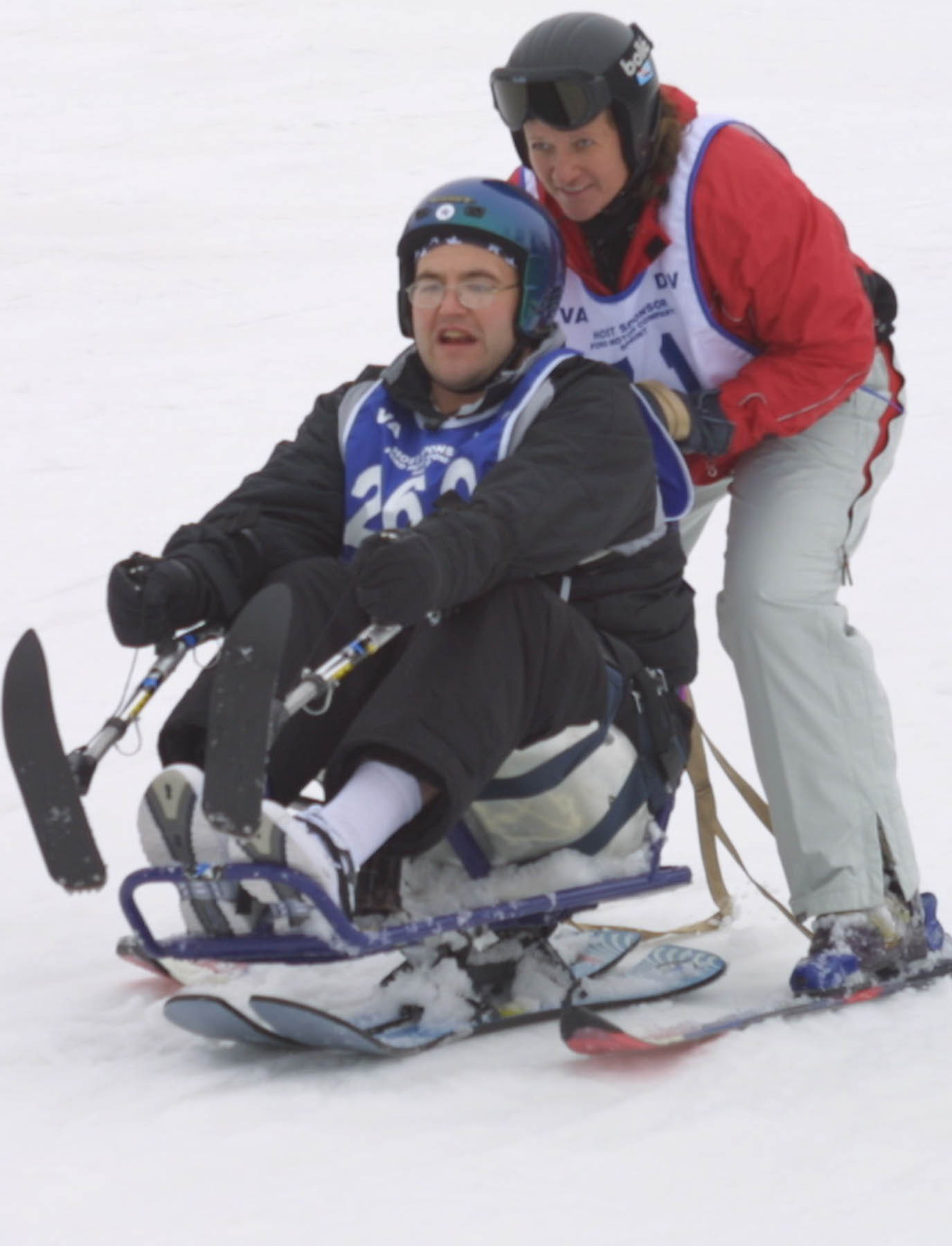 Pfc. Phil Bauer hits a slope near Aspen in a bi-ski with guidance from a volunteer instructor. Bauer's right leg was amputated below the knee after the Chinook he was riding in was shot down In Iraq Nov. 2. Bauer was among more than 300 Soldiers and veterans participating in the National Disabled Veterans Winter Sports Clinic April 4-9 near Aspen.